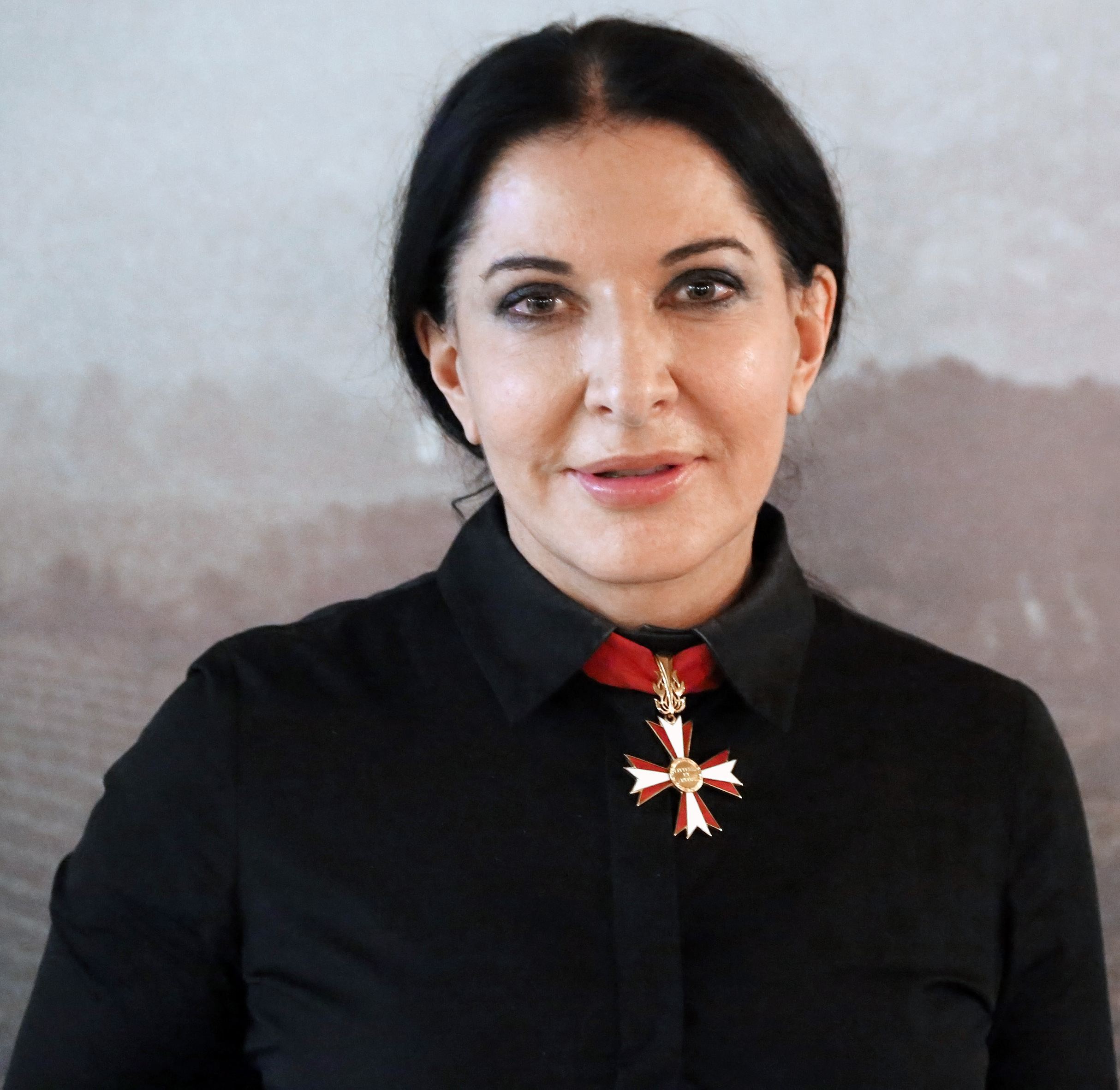 Marina Abramović (with the Austrian Decoration for Science and Art she recieved in 2008) at the screening of Marina Abramović: The Artist Is Present during the Vienna International Film Festival 2012, Gartenbaukino.